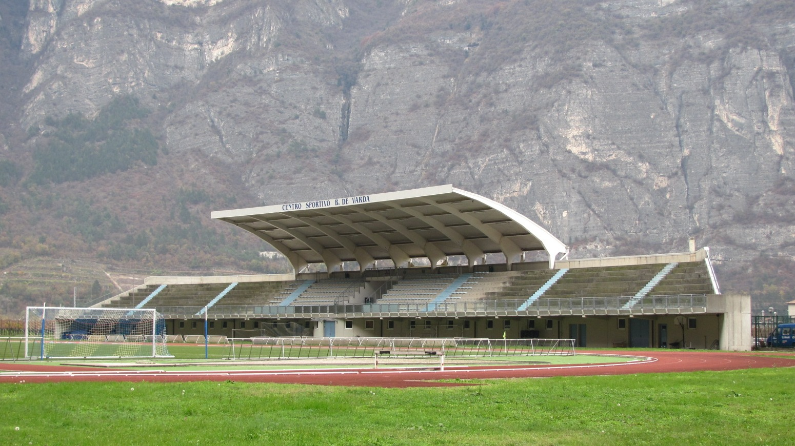 Bruno de Varda Stadium, Mezzolombardo